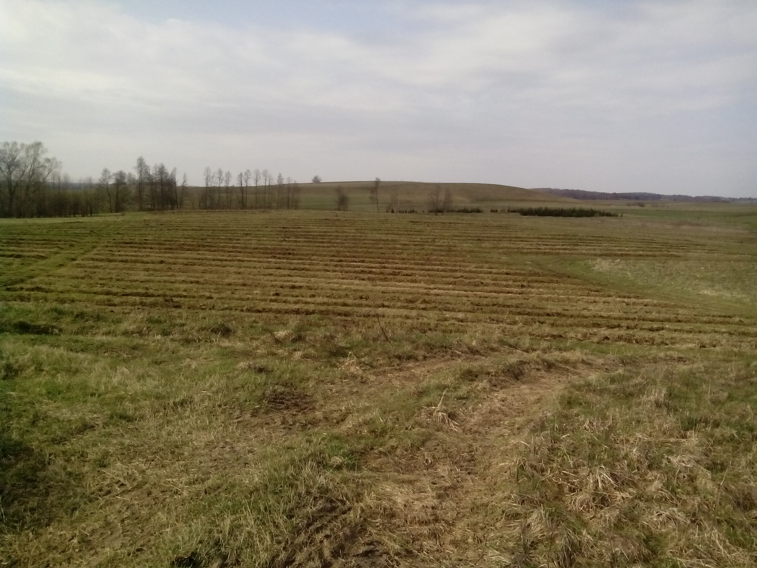 The cavalry battle Landscape year 2014